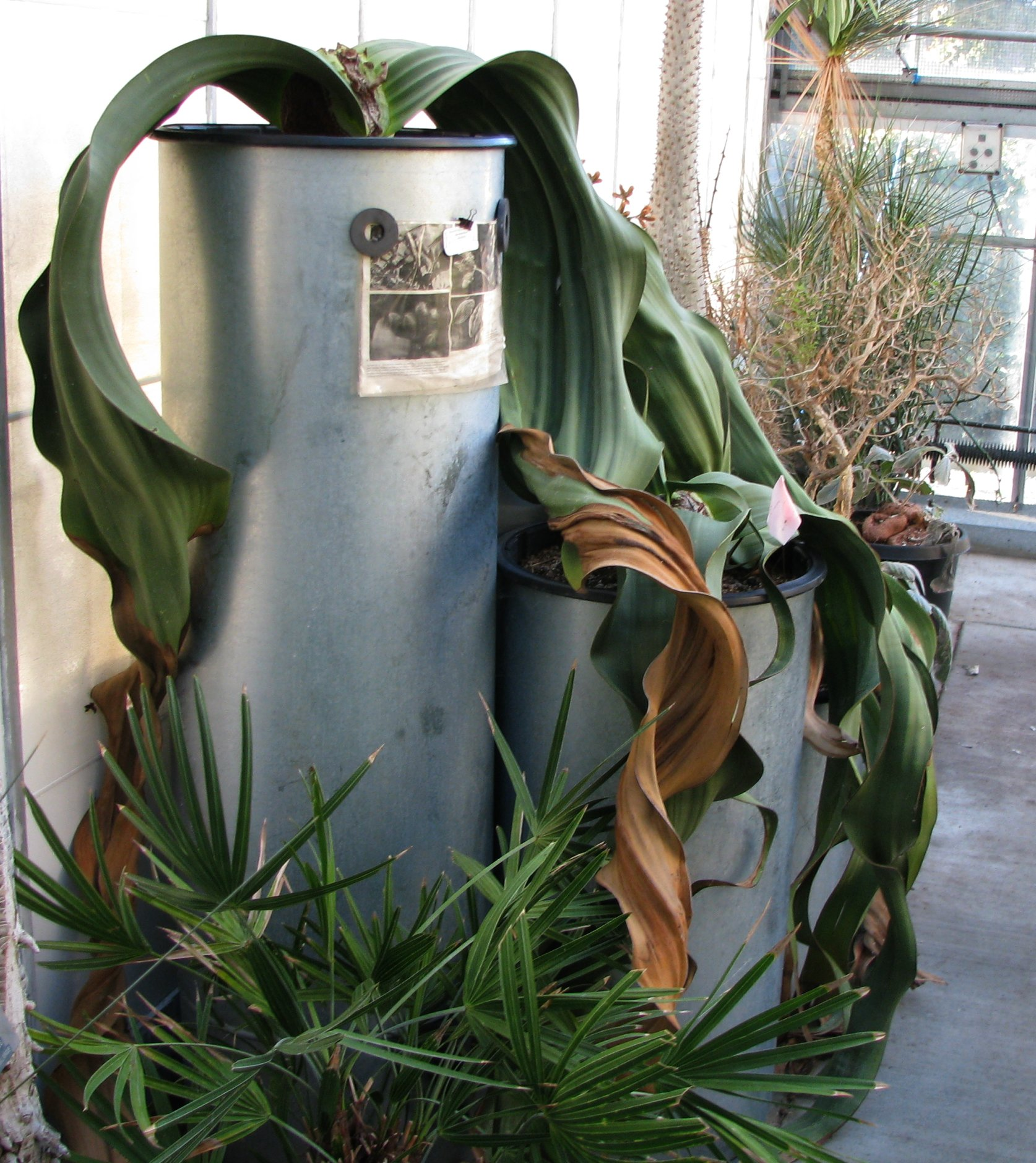 Welwitschia Welwitschiaceae Washington State University greenhouse, Seattle, Washington Male cones